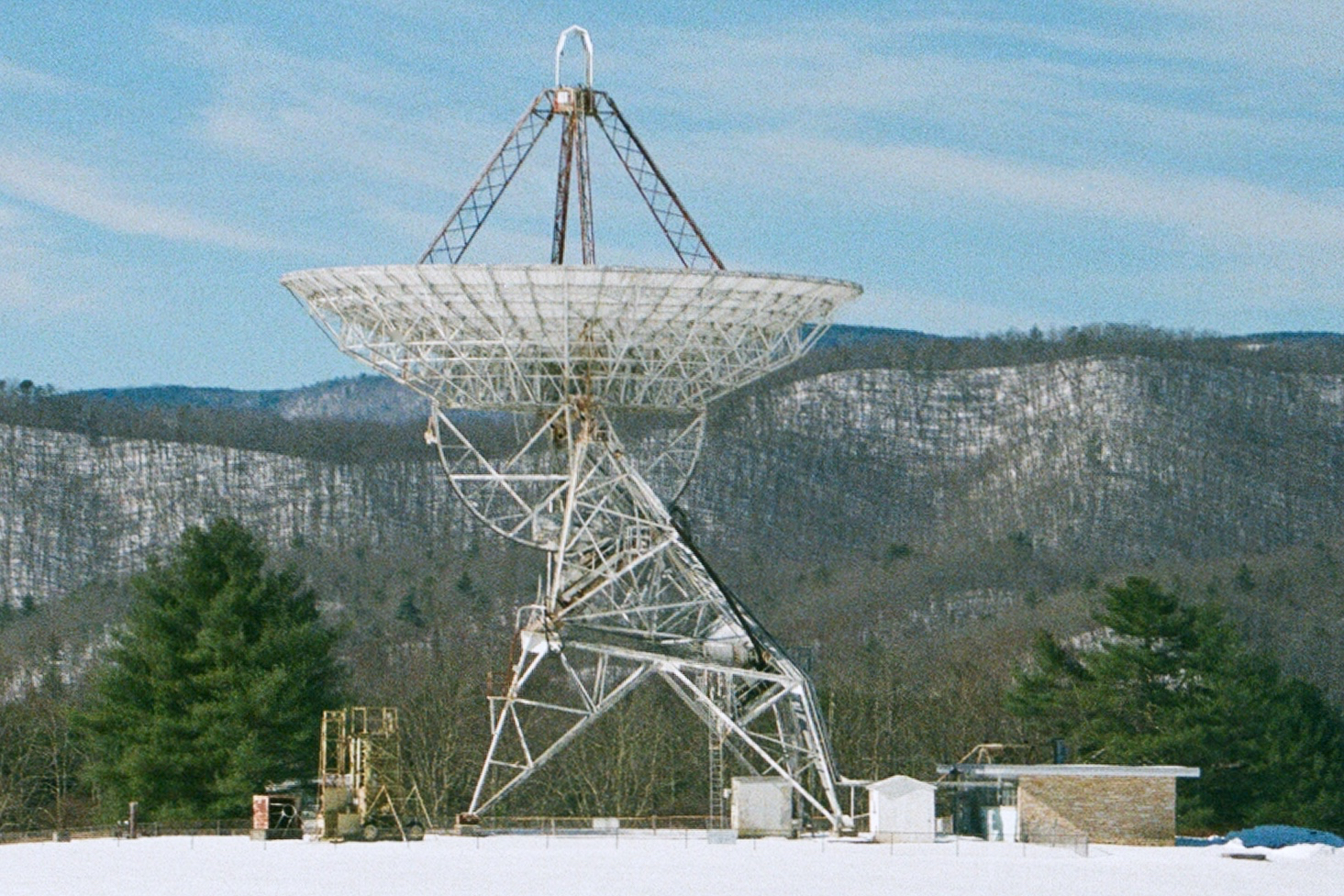 Howard E. Tatel Radio Telescope (85-1) at Green Bank site of the National Radio Astronomy Observatory (NRAO)